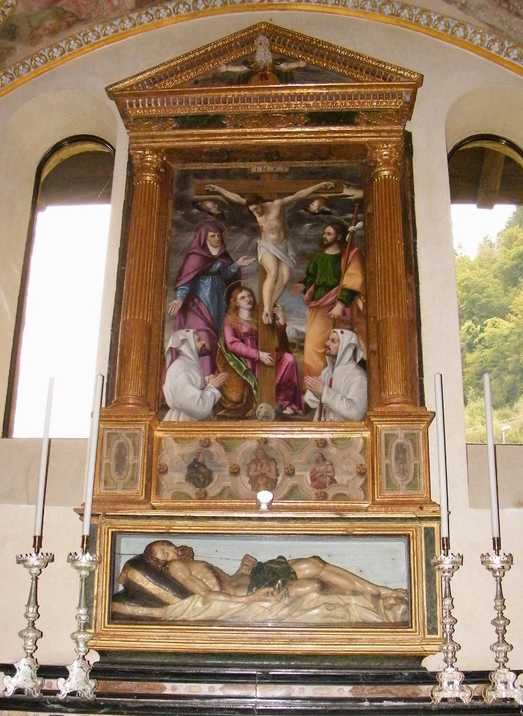 Altar with Disciplini. Church of St James. Gromo